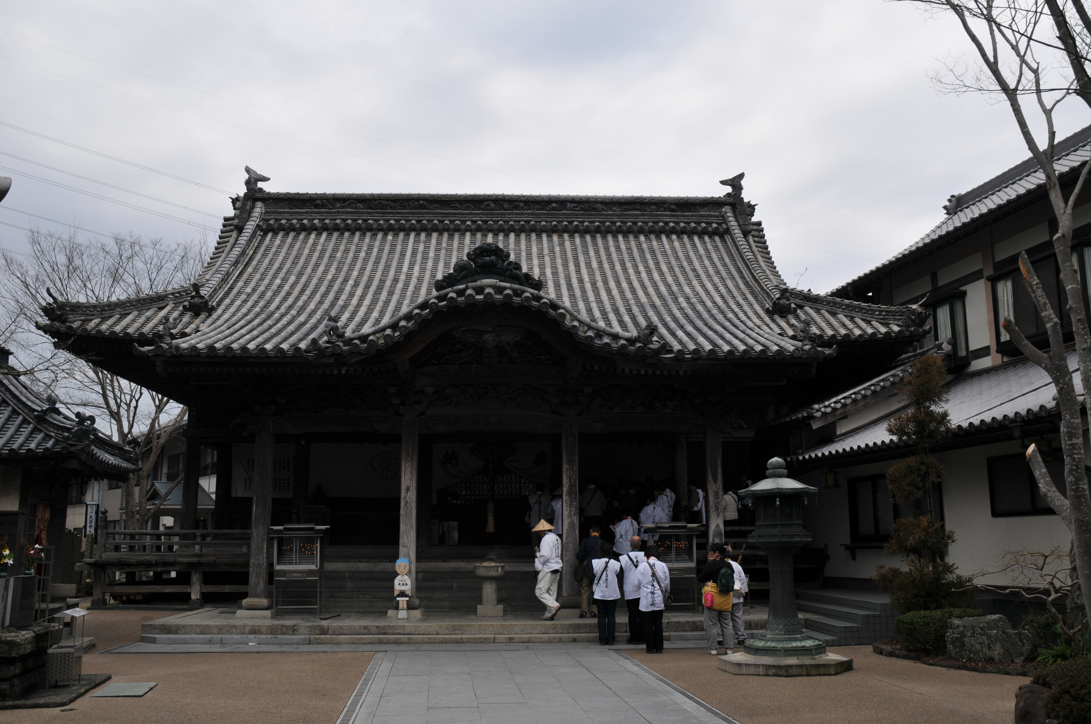 Dainichi-ji main temple